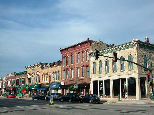 Lockport's Historic Downtown